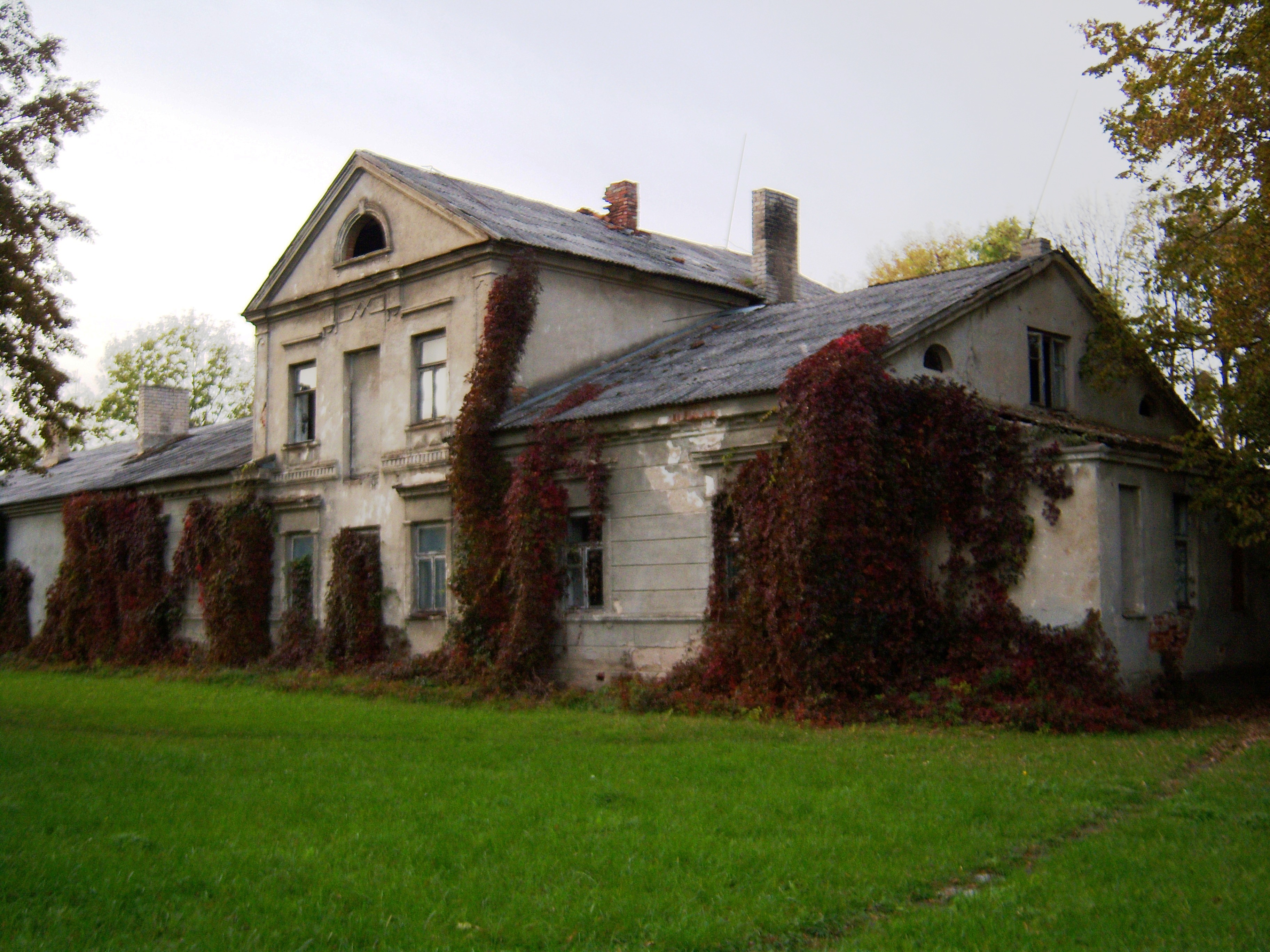 Former manor, Klampučiai, Vilkaviškis District, Lithuania